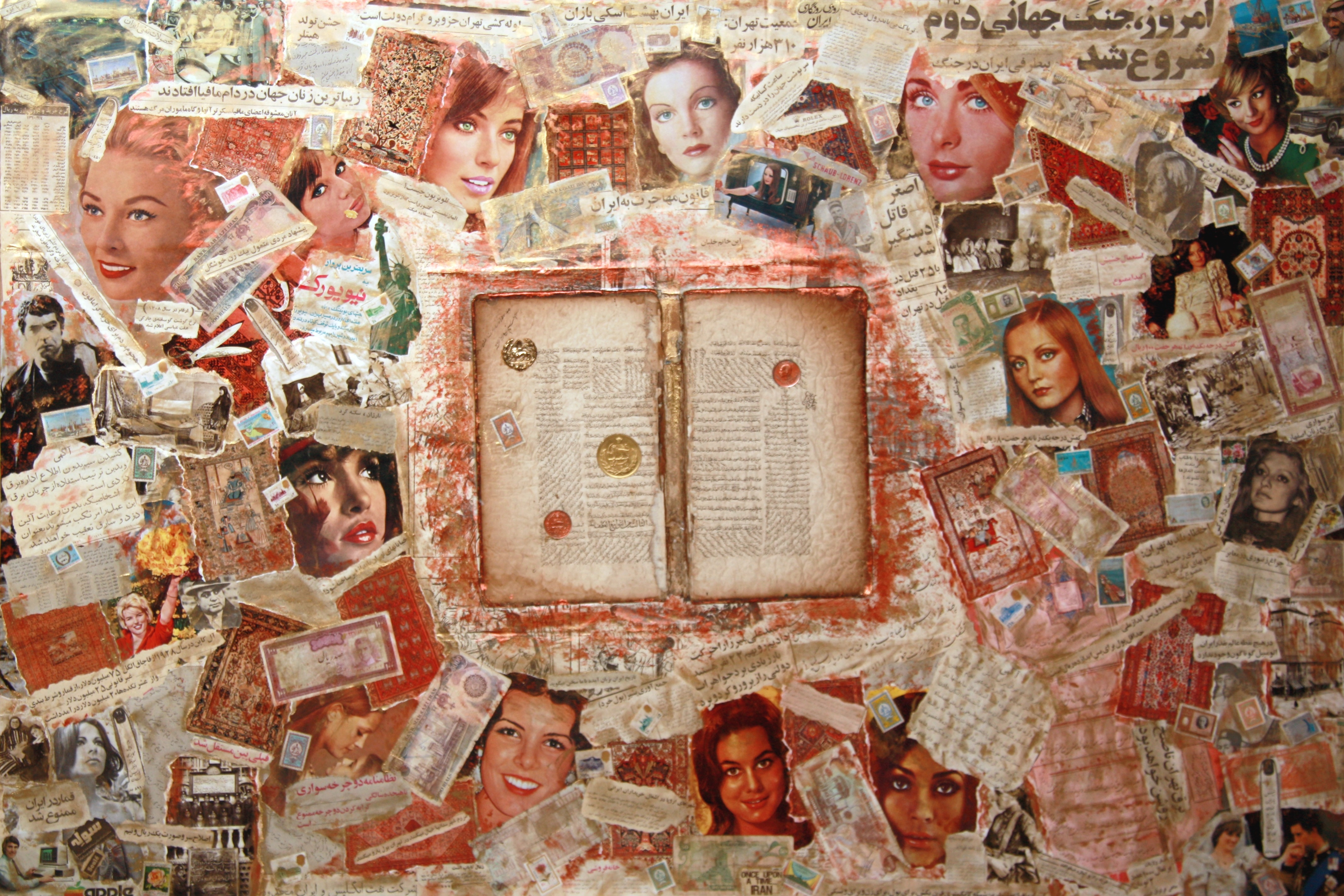 Once Upon A Time Iran